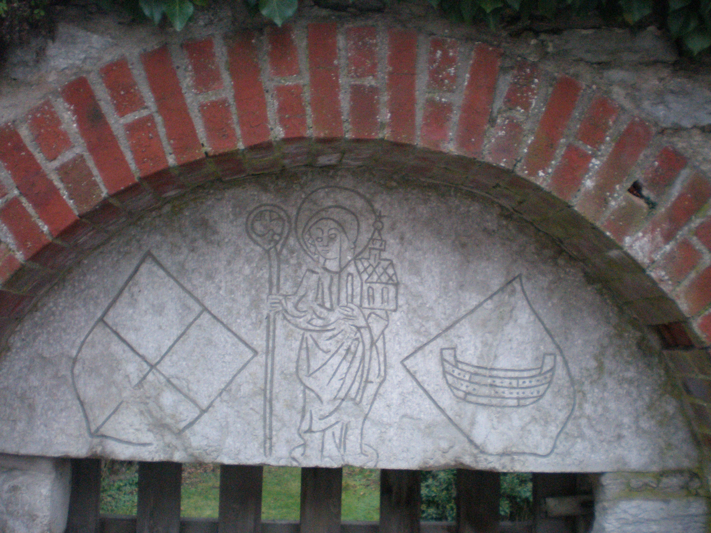 (S:ta Gertrud, Visby)